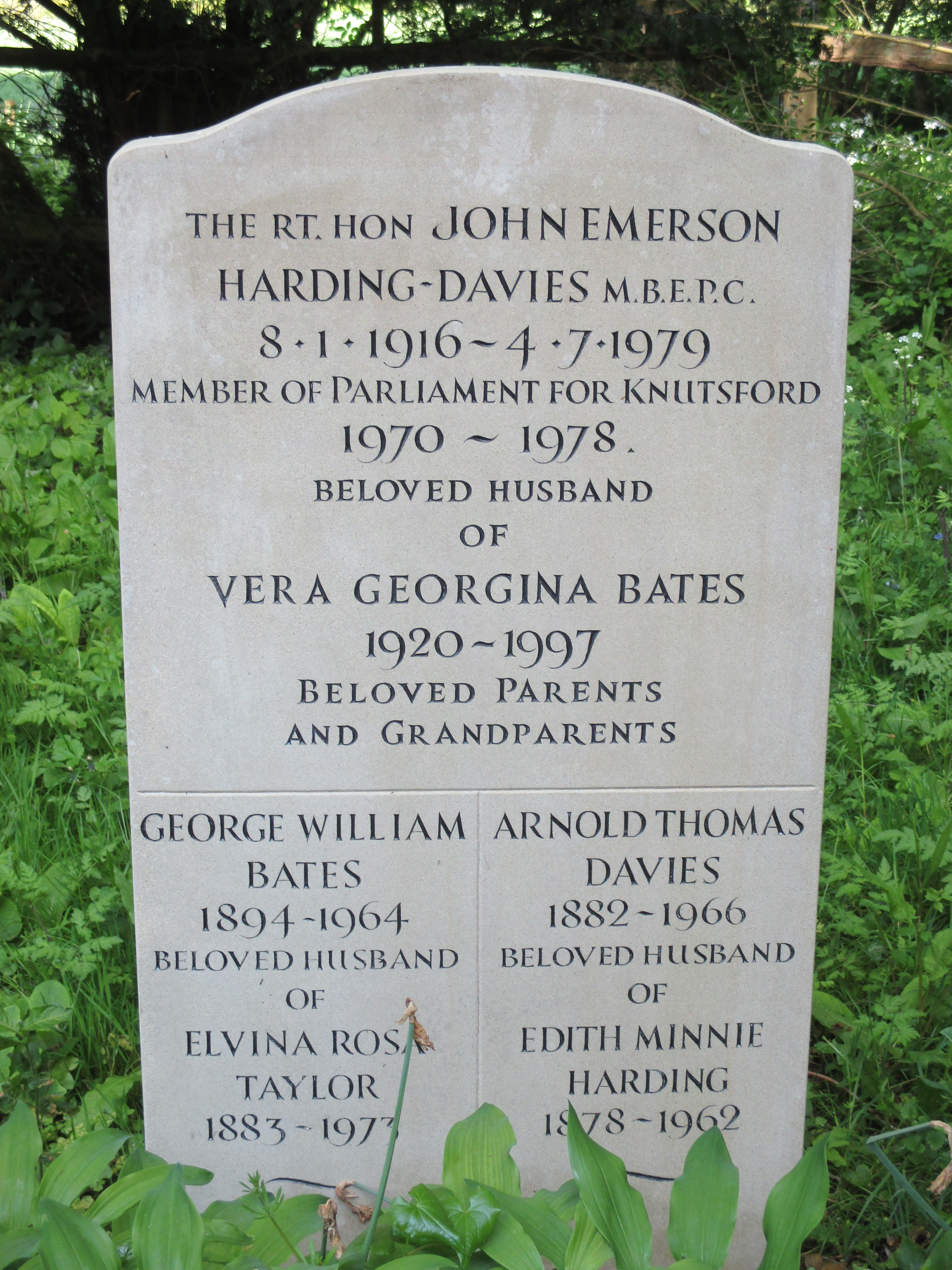 The gravestone of John Harding-Davies and his family, in Shermanbury Parish Cemetery, Frylands Lane, Wineham, West Sussex.